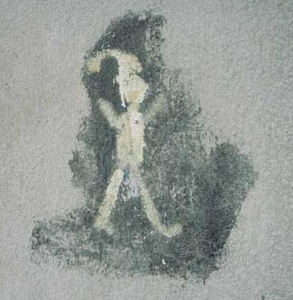 Orange Alternative (Pomarańczowa Alternatywa) Dwarf graffiti on the spot covering up the Fighting Solidarity (Solidarność Walcząca) sign on a building wall in Warsaw, Poland